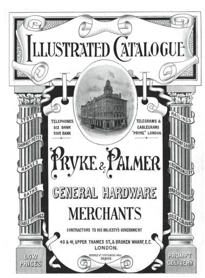 Cover of an unspecified issue of the Pryke & Palmer Ltd catalogue.